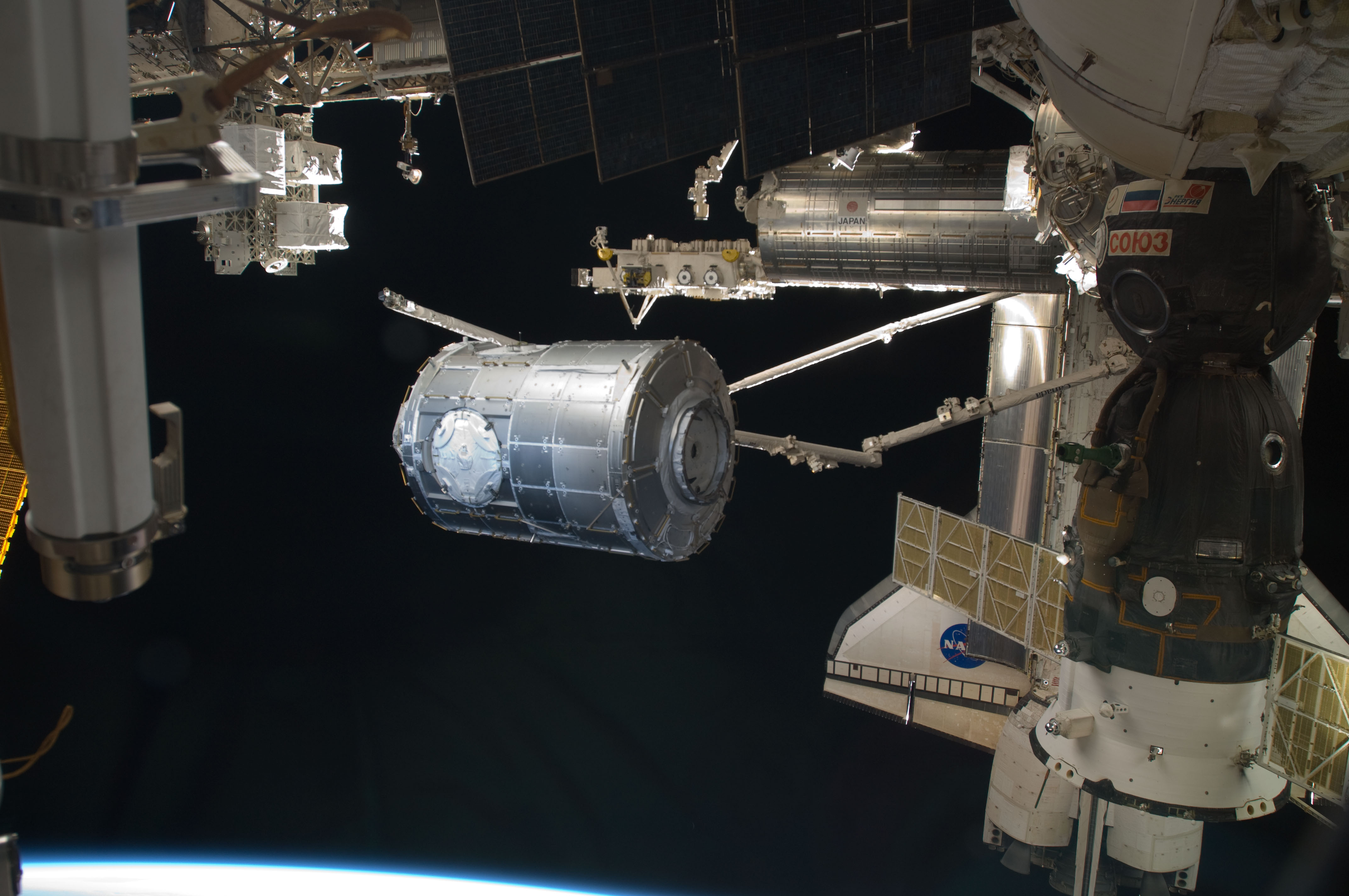 In the grasp of the station's Canadarm2, the Tranquility module is transferred from its stowage position in space shuttle Endeavour's (STS-130) payload bay to position it on the port side of the Unity node of the International Space Station. Tranquility was locked in place with 16 remotely-controlled bolts.